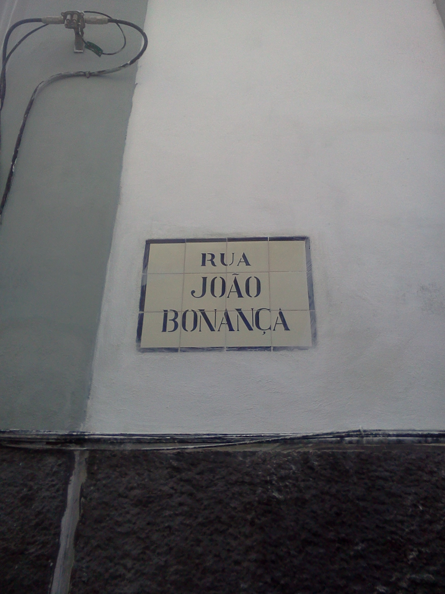 Street sign of Rua João Bonança, in the city of Lagos, in southern Portugal.